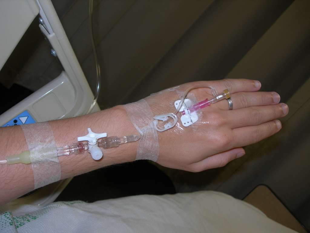 Picture of my left hand and arm. Taken September 13, 2007 at Singapore Raffles Hospital while under rehydration.